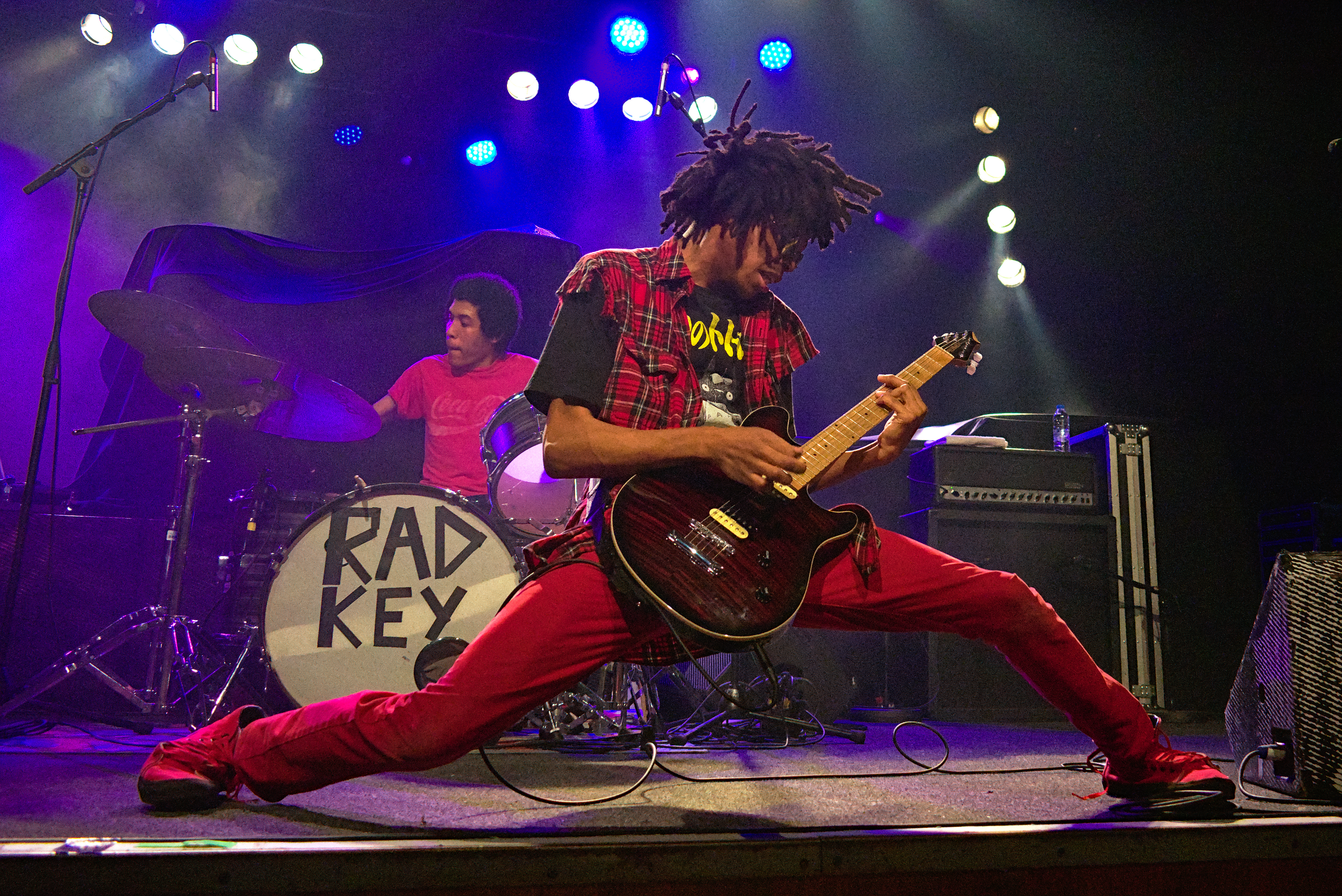 Dee Radke performing onstage in Berlin, January 2019.